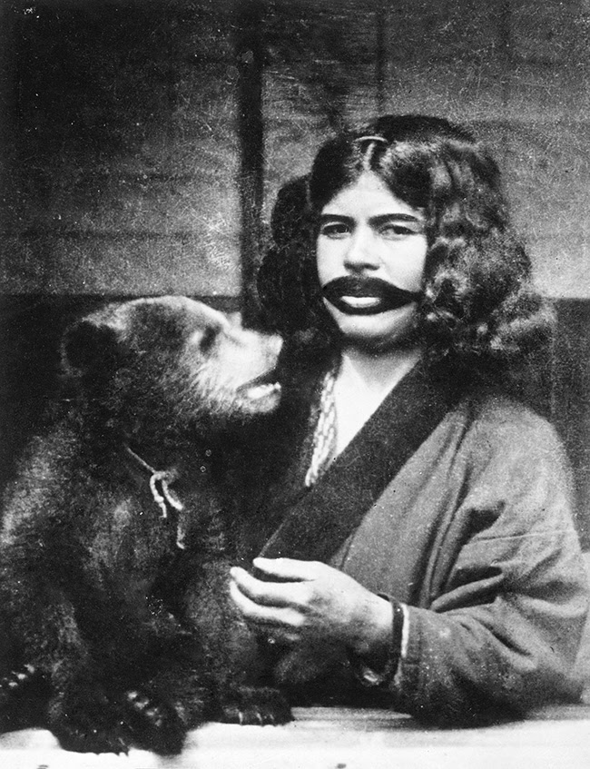 an Ainu woman shows her facial tattoos while holding a live bear on her lap.